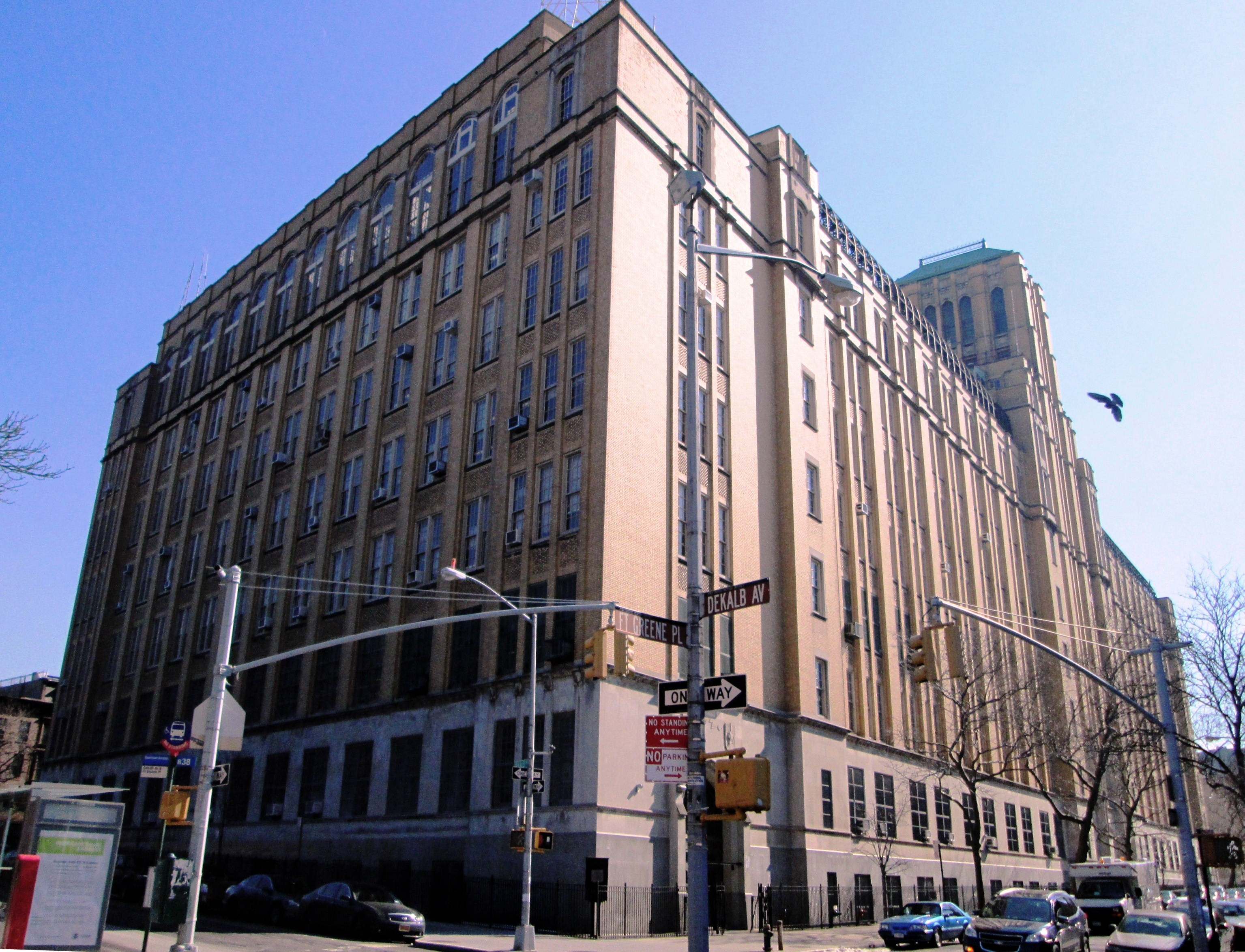 Brooklyn Tech High School was founded in 1922 and was initially located in a converted warehouse at 49 Flatbush Avenue Extension, near the Manhattan Bridge. In 1930, groundbreaking took place for the current building, located at Fort Greene Place and Dekalb Avenue and going through to South Elliott Place. The building cost $6,000,000 and opened to some students in 1933, although the completion of the building took several more years. (Source: BTHS 85th Anniversary Gala program)